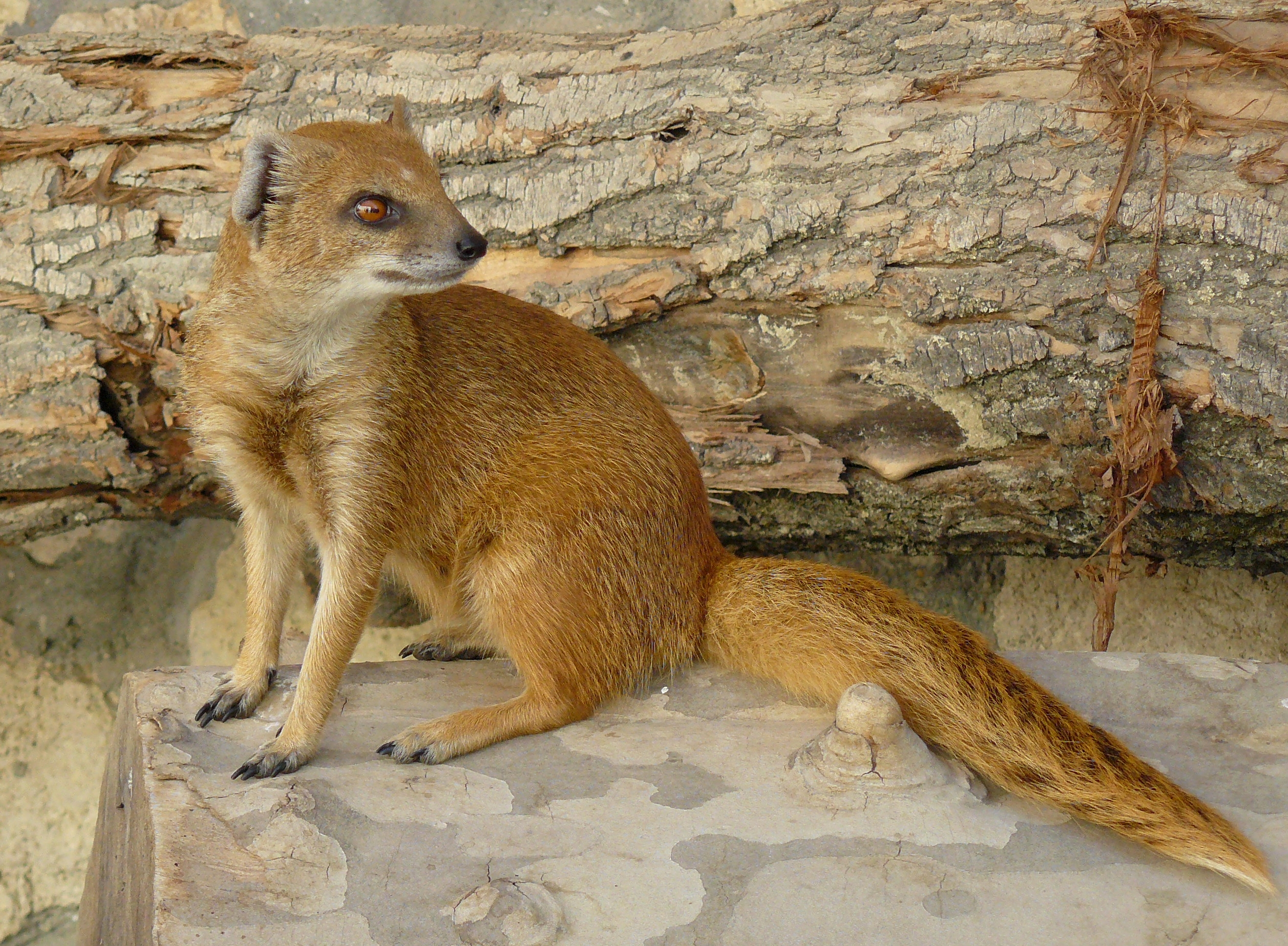 Taken in the Zoo, Budapest